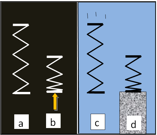 spring in free fall, spring compressed, drawing in microsoft word